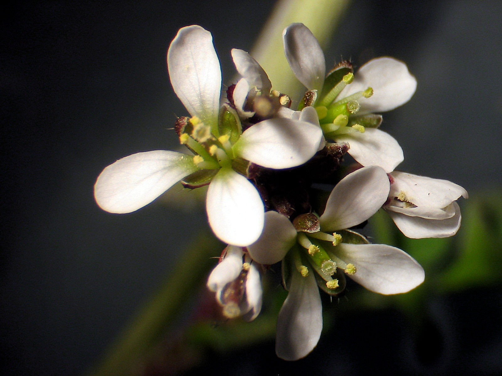 Flowers of C. hirsuta, stereomicroscope 10X